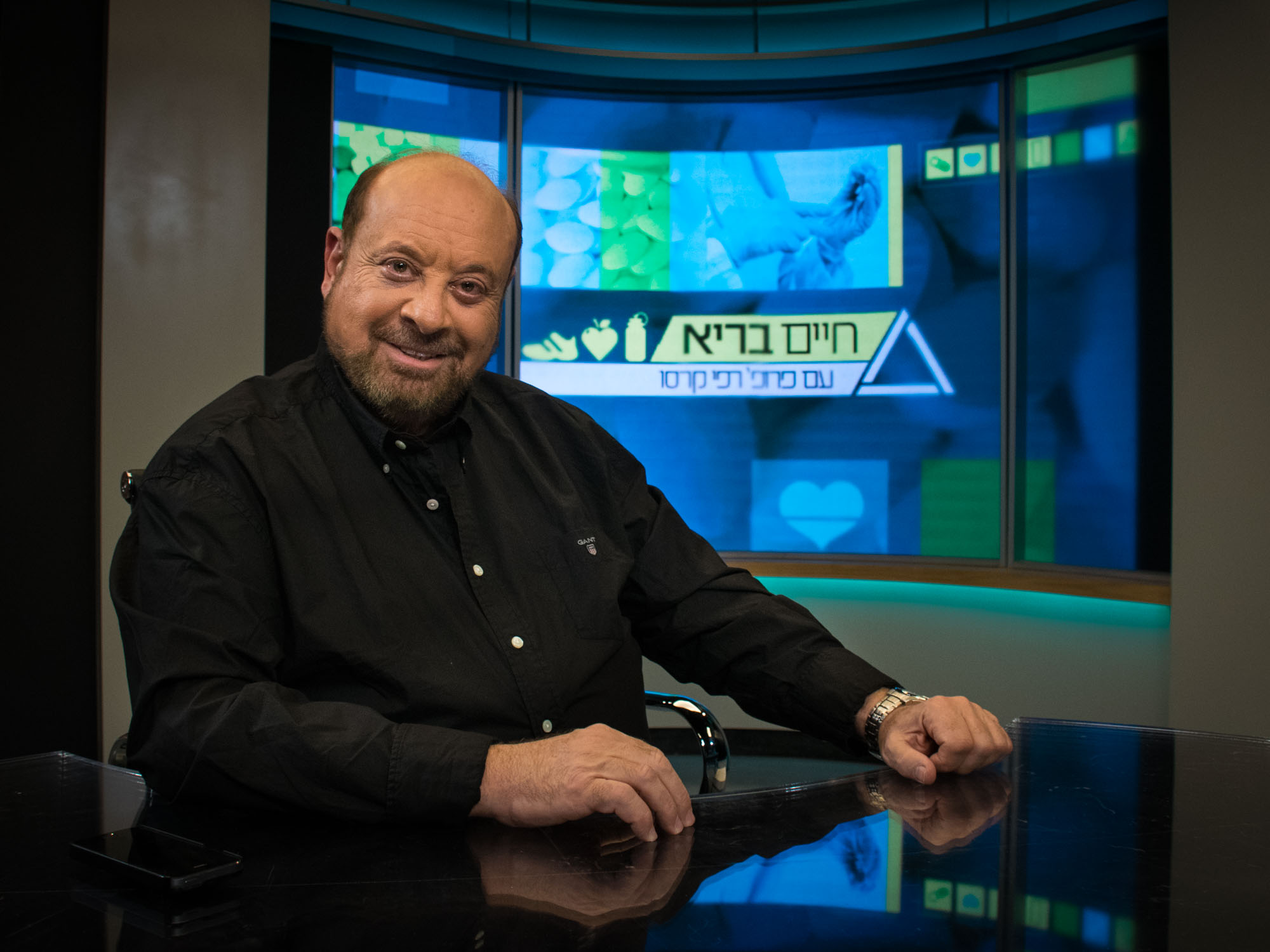 Professor Rafi Caraso